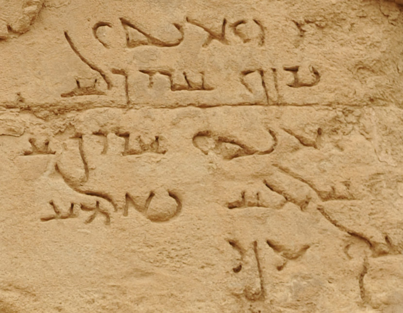 Close-up of a Hatran inscription at the Shrine of Hatra in Hatra, Iraq